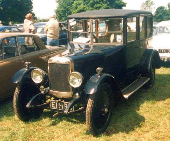 Star 11.9 saloon. Photographed by myself 1999 Ashover, Derbyshire, UK